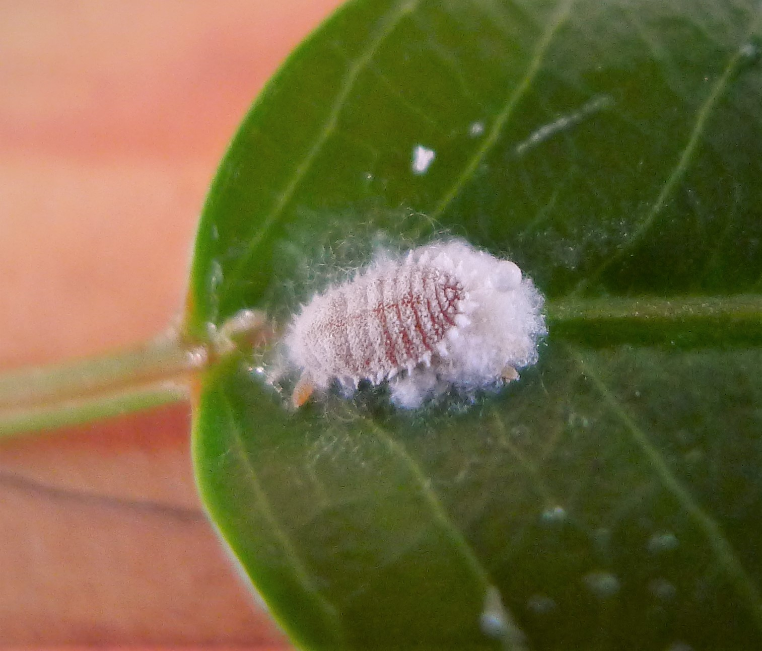 Cradley, Malvern Worcs, SO729470